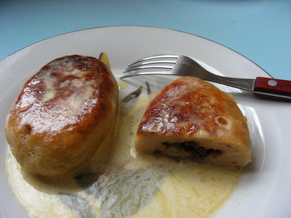 Lithuanian cuisine – potato pancakes „Žemaičių blynai“